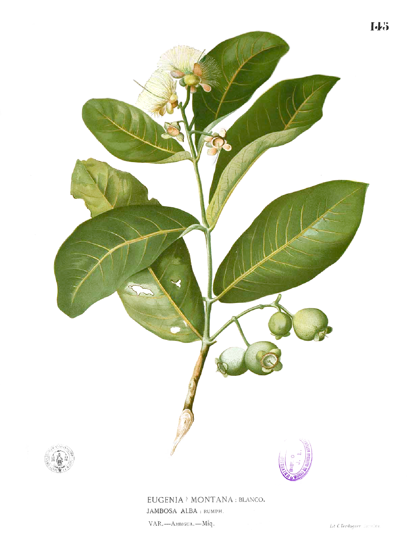 Plate from book